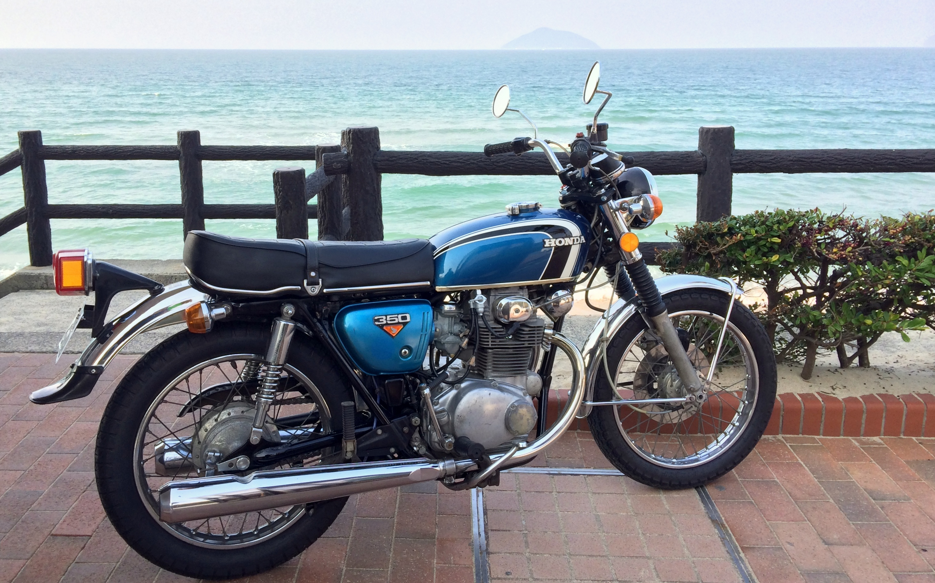 1971 Honda CB350 K4 Japanese Domestic model with front disc brake.